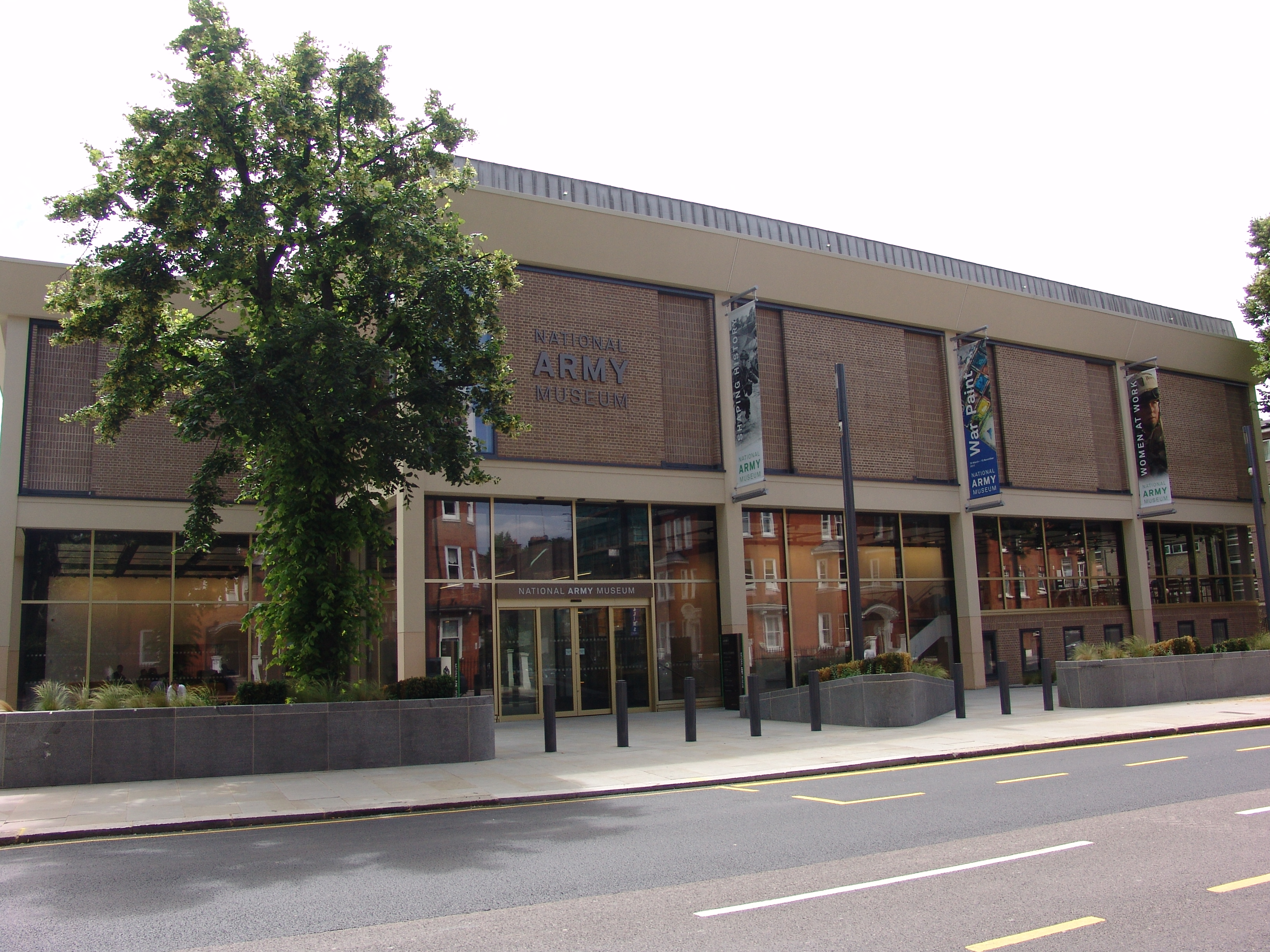 Exterior shot of the National Army Museum, from the Royal Hospital Road, June 2017